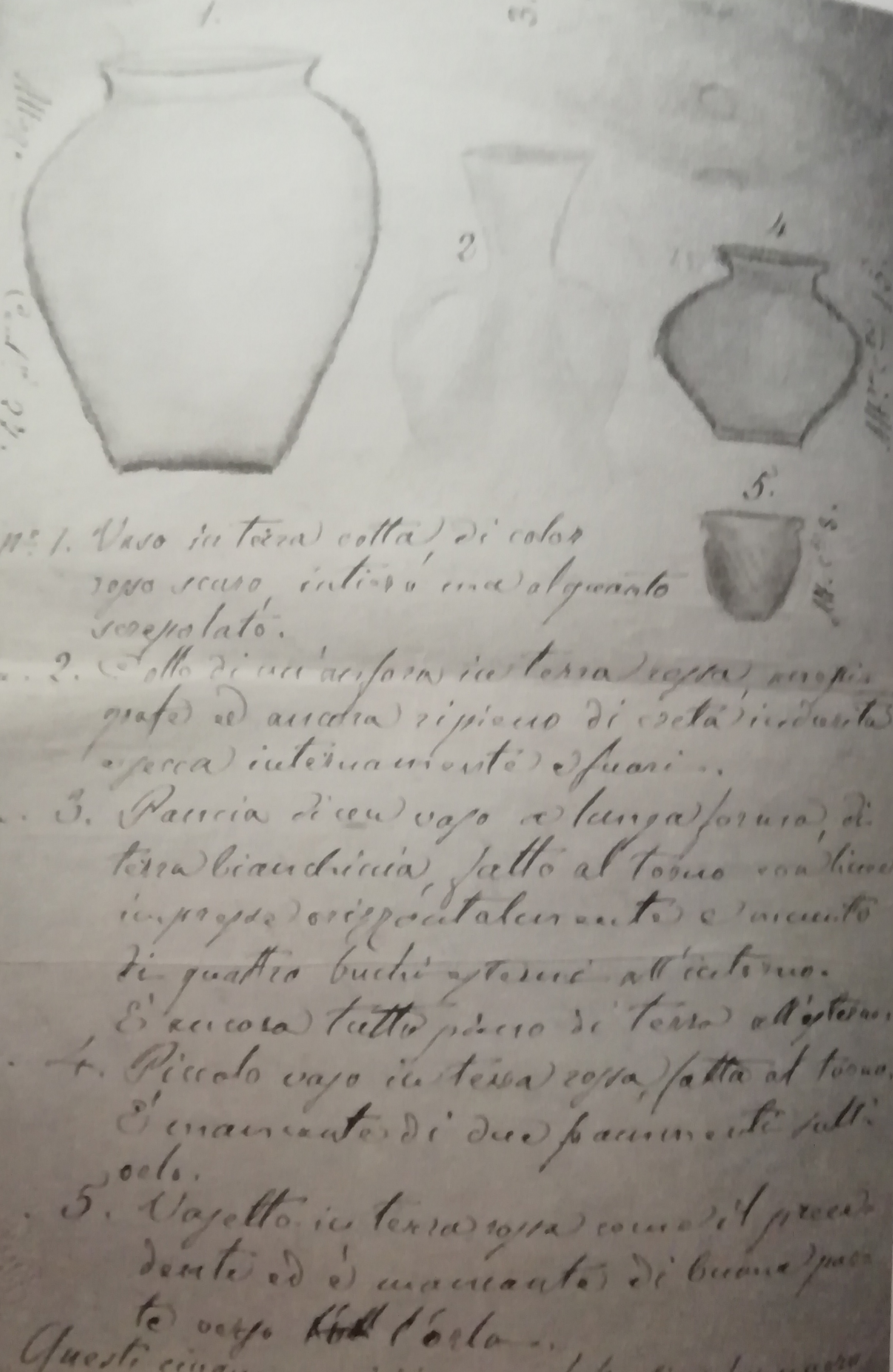 Luigi Bruzza Vercelli archaeology